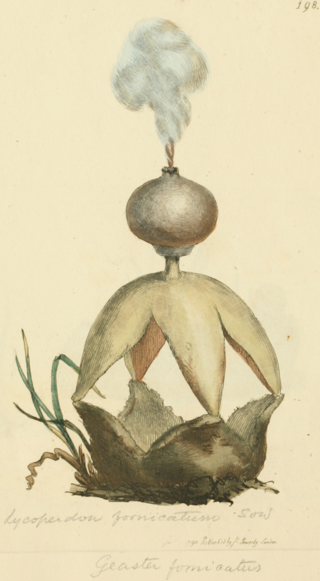 This is a plate from James Sowerby's Coloured Figures of English Fungi or Mushrooms.